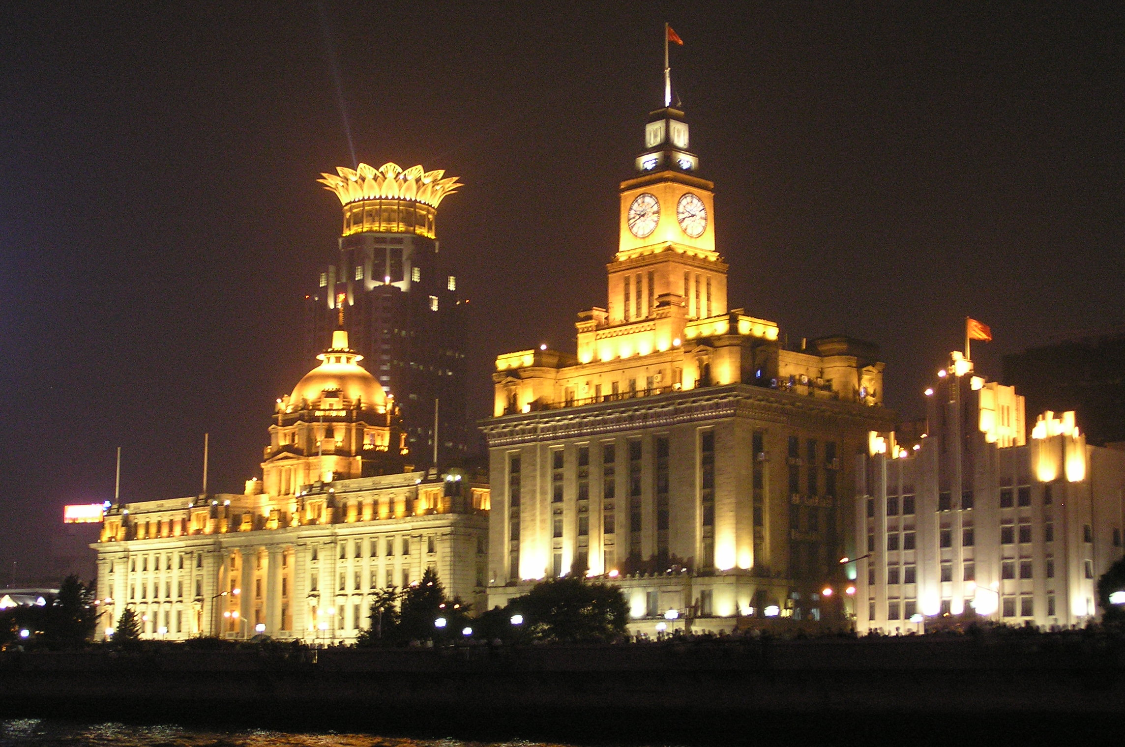 The Bund at night. Cathay Hotel (now Peace Hotel), Customs House and the Hong Kong and Shanghai Bank in the foreground; the Bund Financial Center in the background (Shanghai, China) Author: Mr. Tickle Date: 07/28, 2005